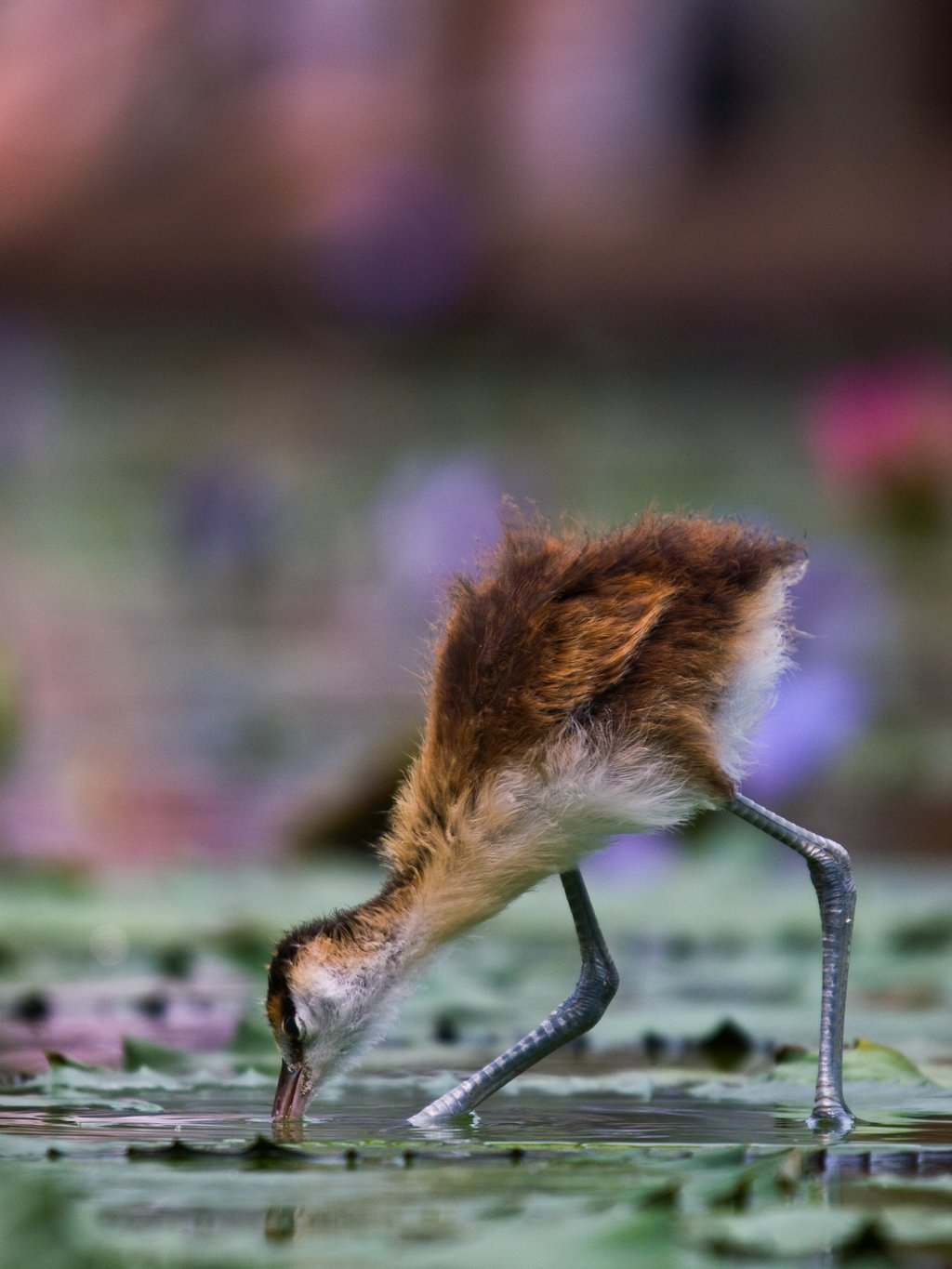 African Jacana (Actophilornis africana) chick in a zoo in Japan.